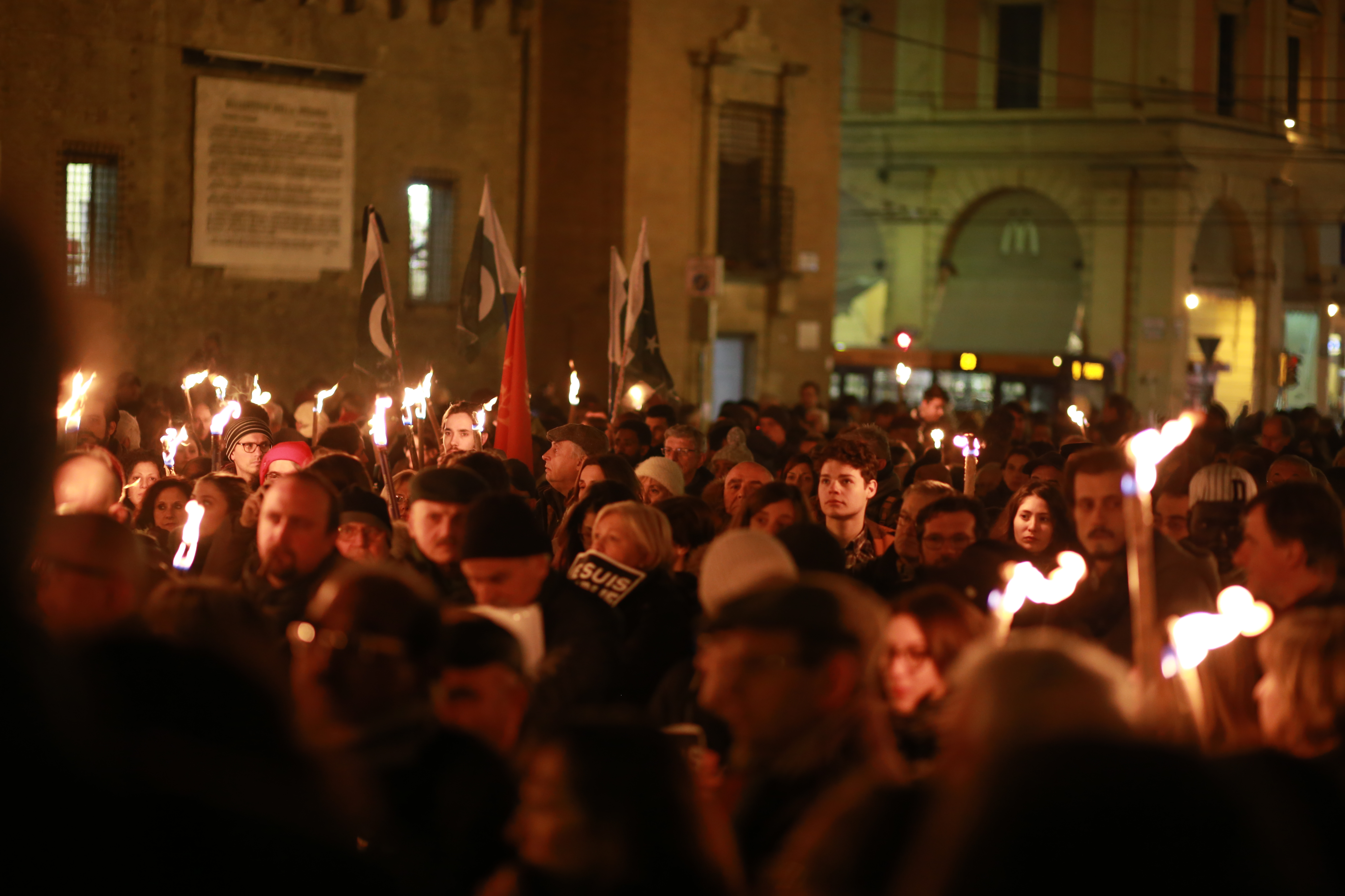 Fiaccolata JesuisCharlie Rally in support of the victims of the 2015 Charlie Hebdo shooting.